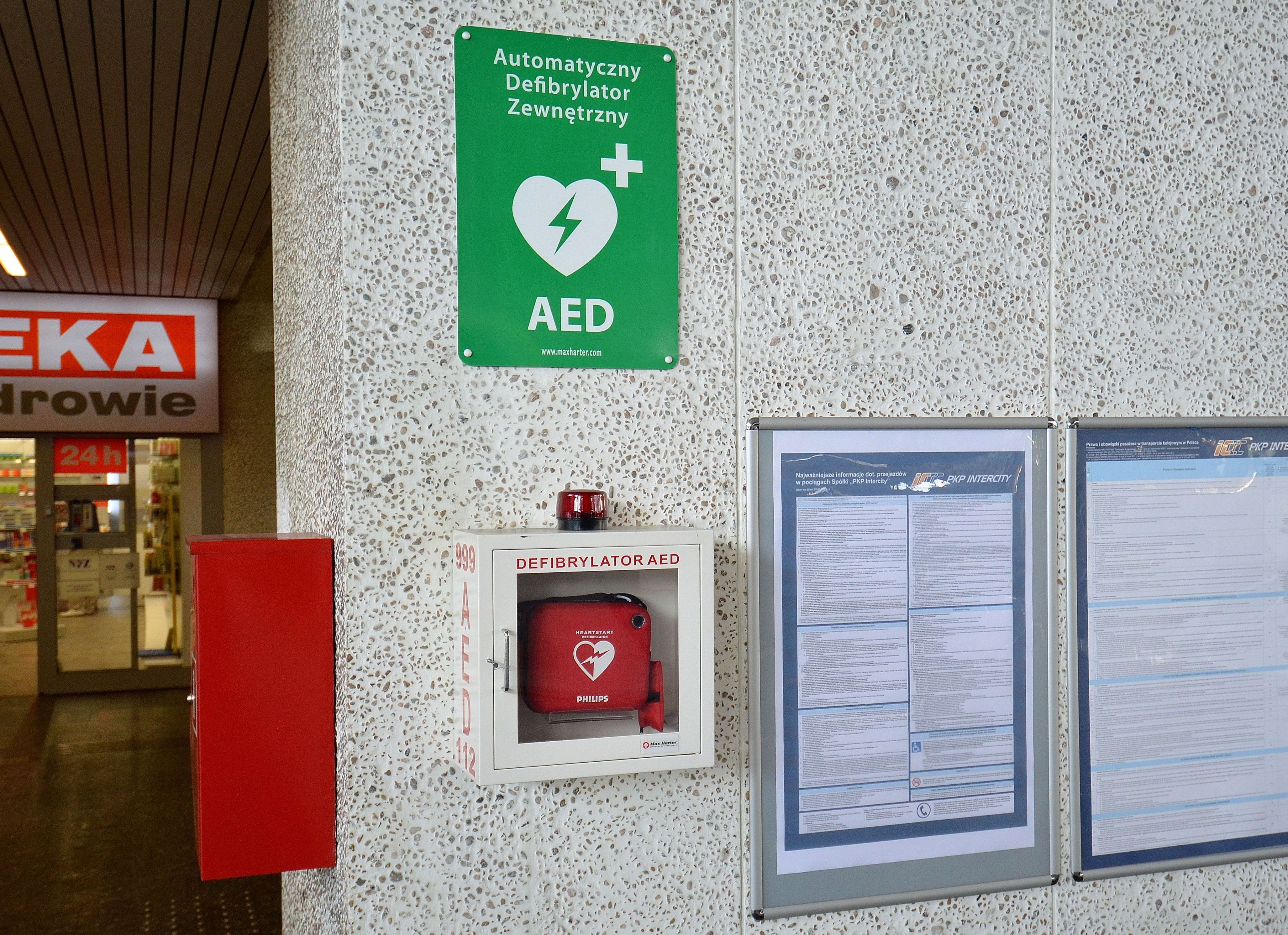 AED at the Warsaw Central railway station